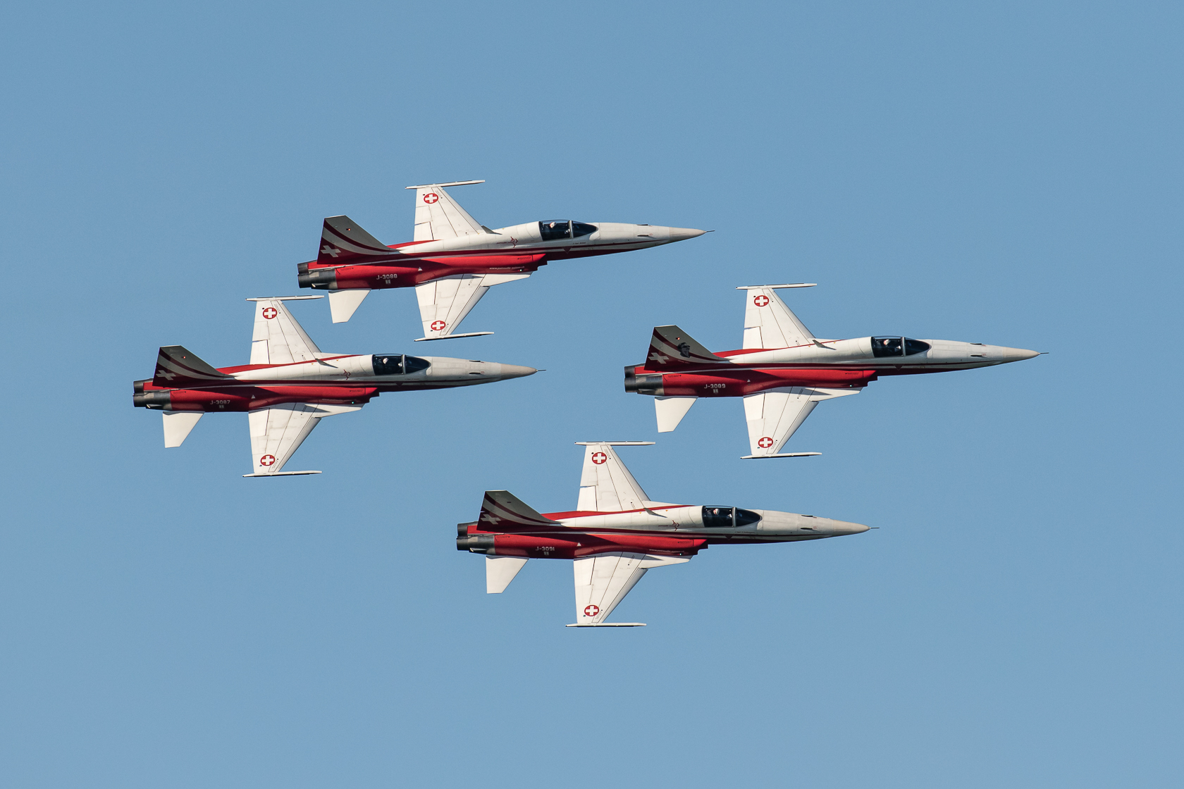 Patroille de Suisse Northrop F-5E Tiger II diamond